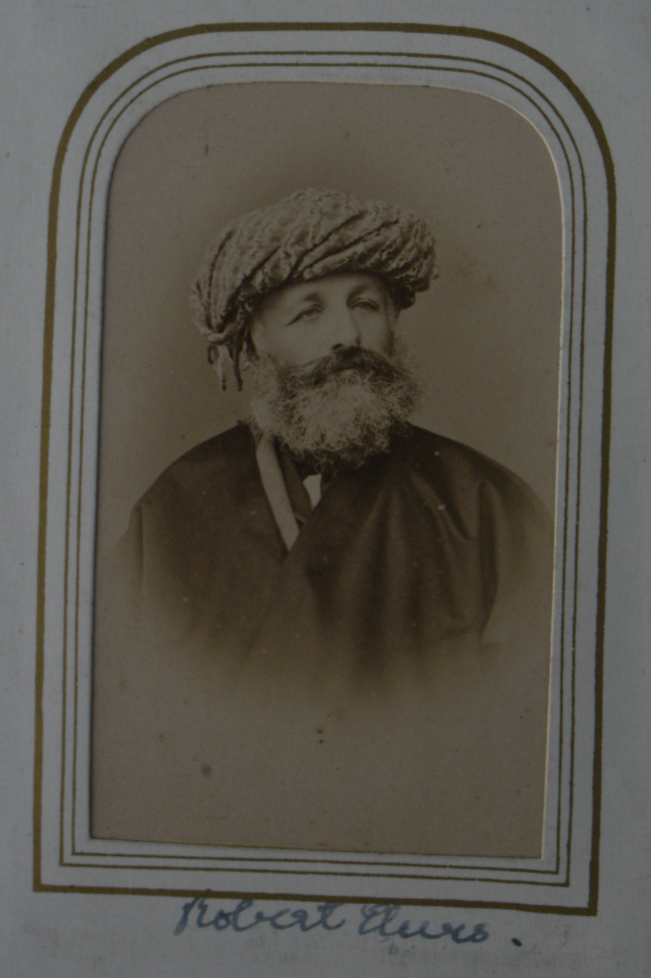 My digital photo (R. de SalisRodolph (talk) 14:25, 29 May 2014 (UTC)) of a carte de visite of Robert Elwes of Congham (1819-1878).